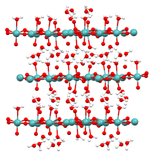 View of MoO3(H2O)2 lattice.